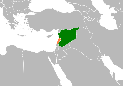 Lebanon-Syria Locator